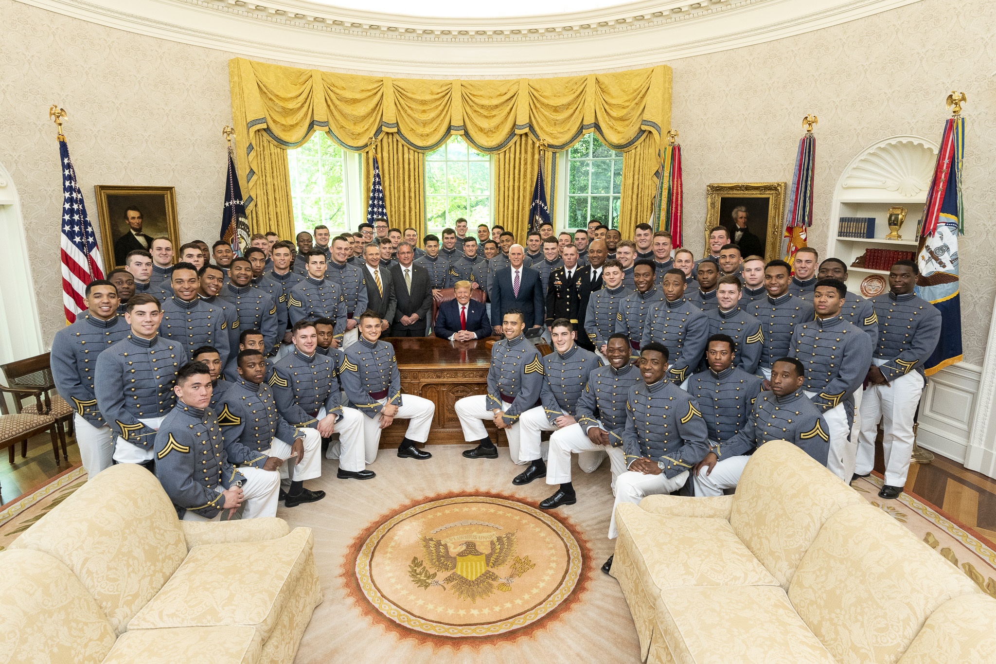 President Donald J. Trump poses for photos with members of the Army Black Knights, the U.S. Military Academy football team, prior to the Commander-in-Chief’s Trophy presentation in the Rose Garden Monday, May 6, 2019 at the White House. (Official White House Photo by Shealah Craighead)